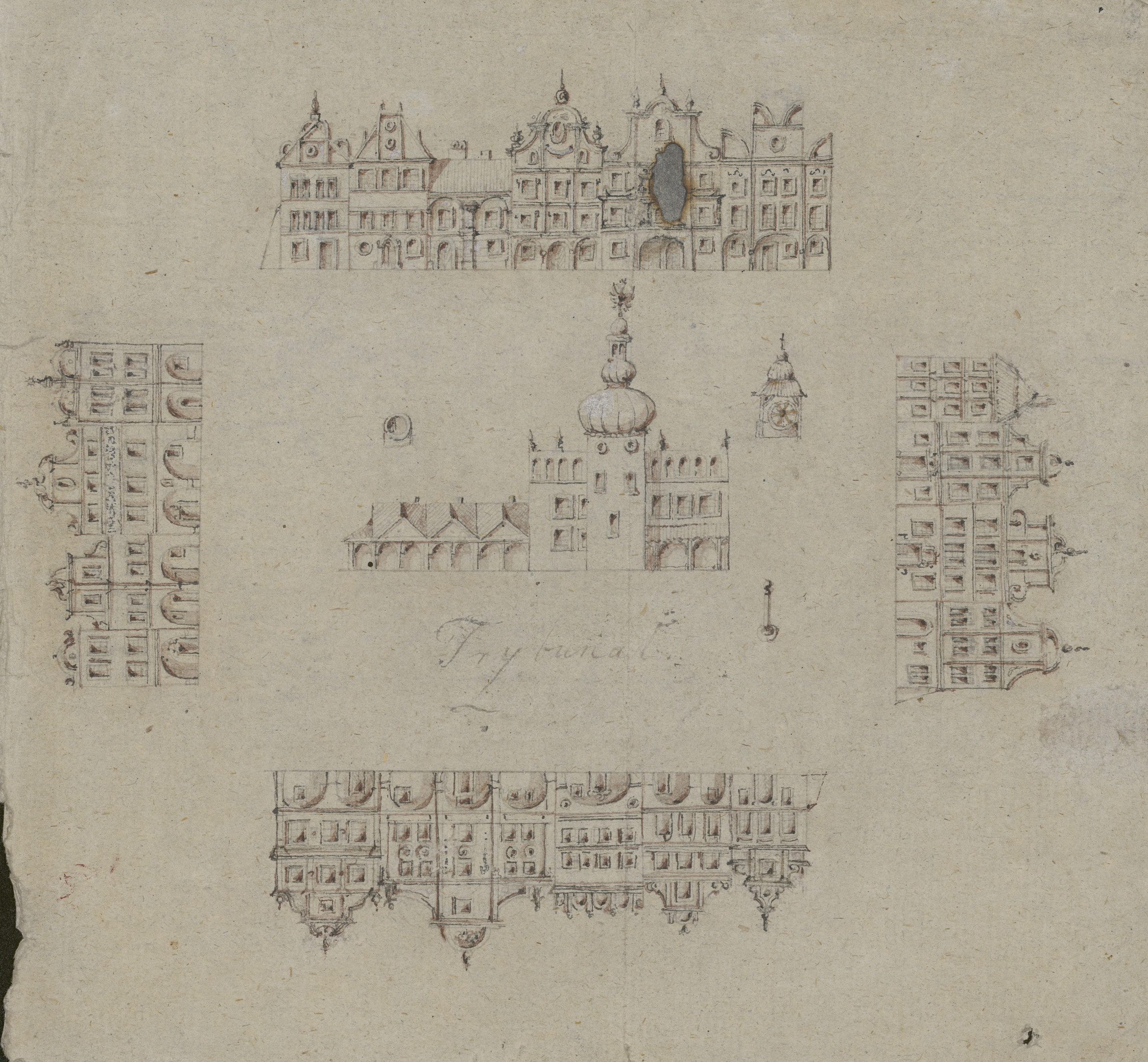 Odrys widoku Rynku w Piotrkowie Trybunalskim sprzed pożaru miasta w 1786.